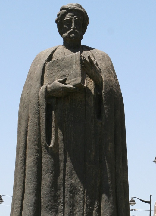 Cropped picture of the original version of Ibn Khaldun statue.in Tunis.